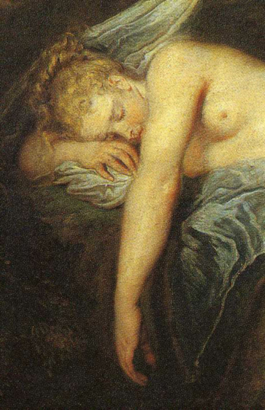 Nymph and Satyr. oil on canvasmedium QS:P186,Q296955;P186,Q12321255,P518,Q861259